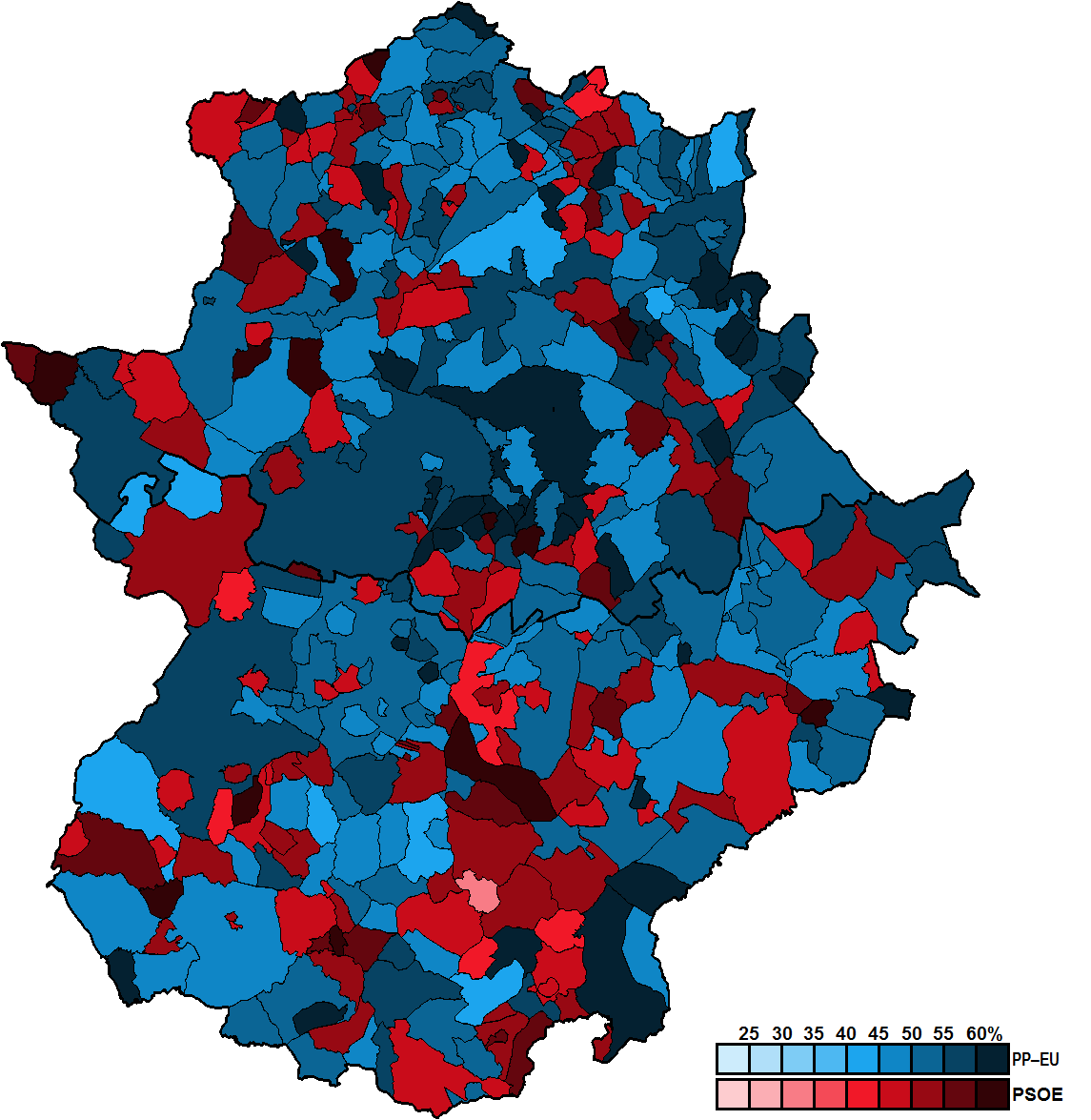 Most-voted party in Extremadura municipalities, showing vote share obtained, in the Spanish general election, 2011.